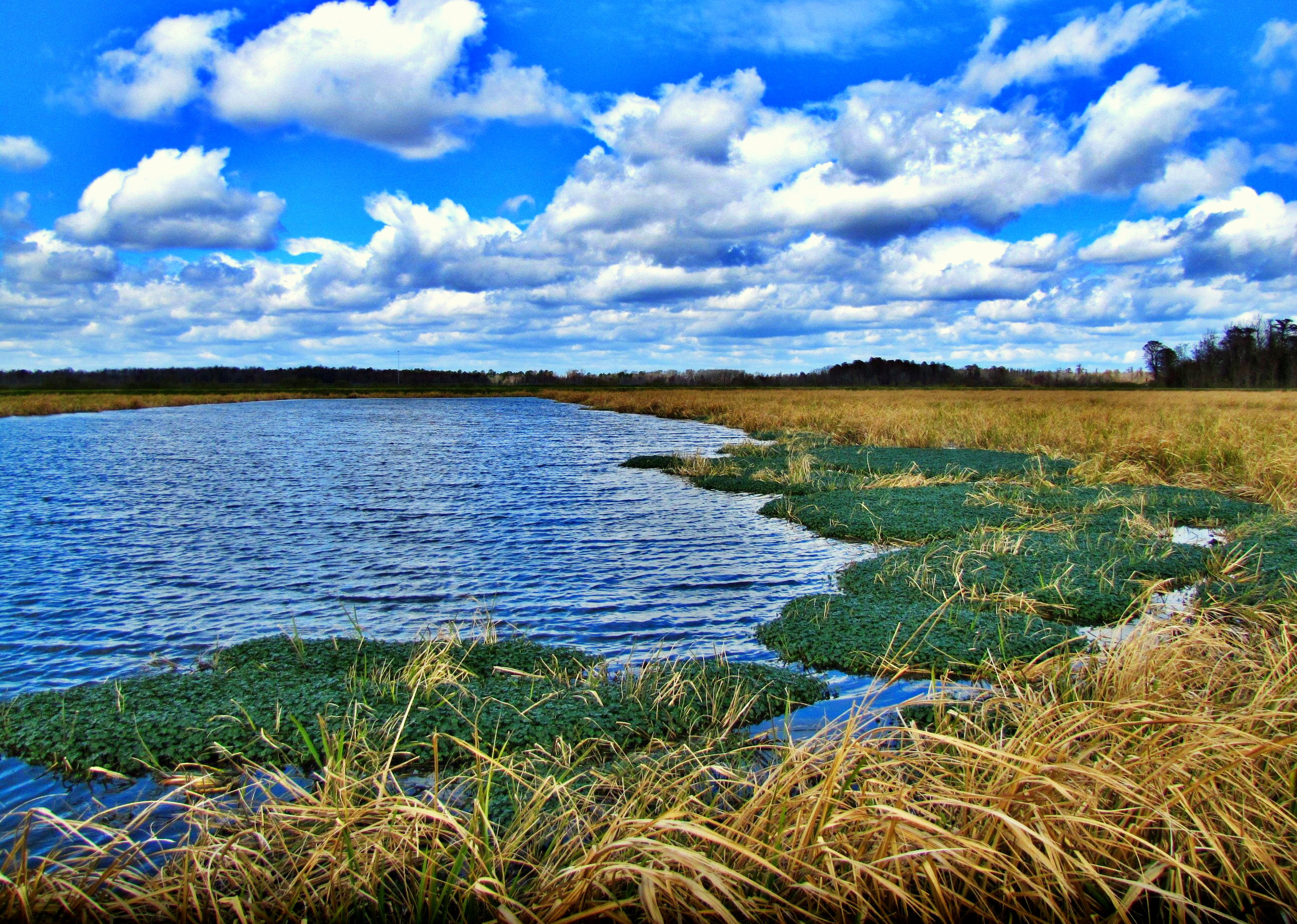 Taken by Liam Wolff in March 2010. View over cell 10 at Phinizy Swamp Nature Park. Note the Cumulus clouds in the sky.